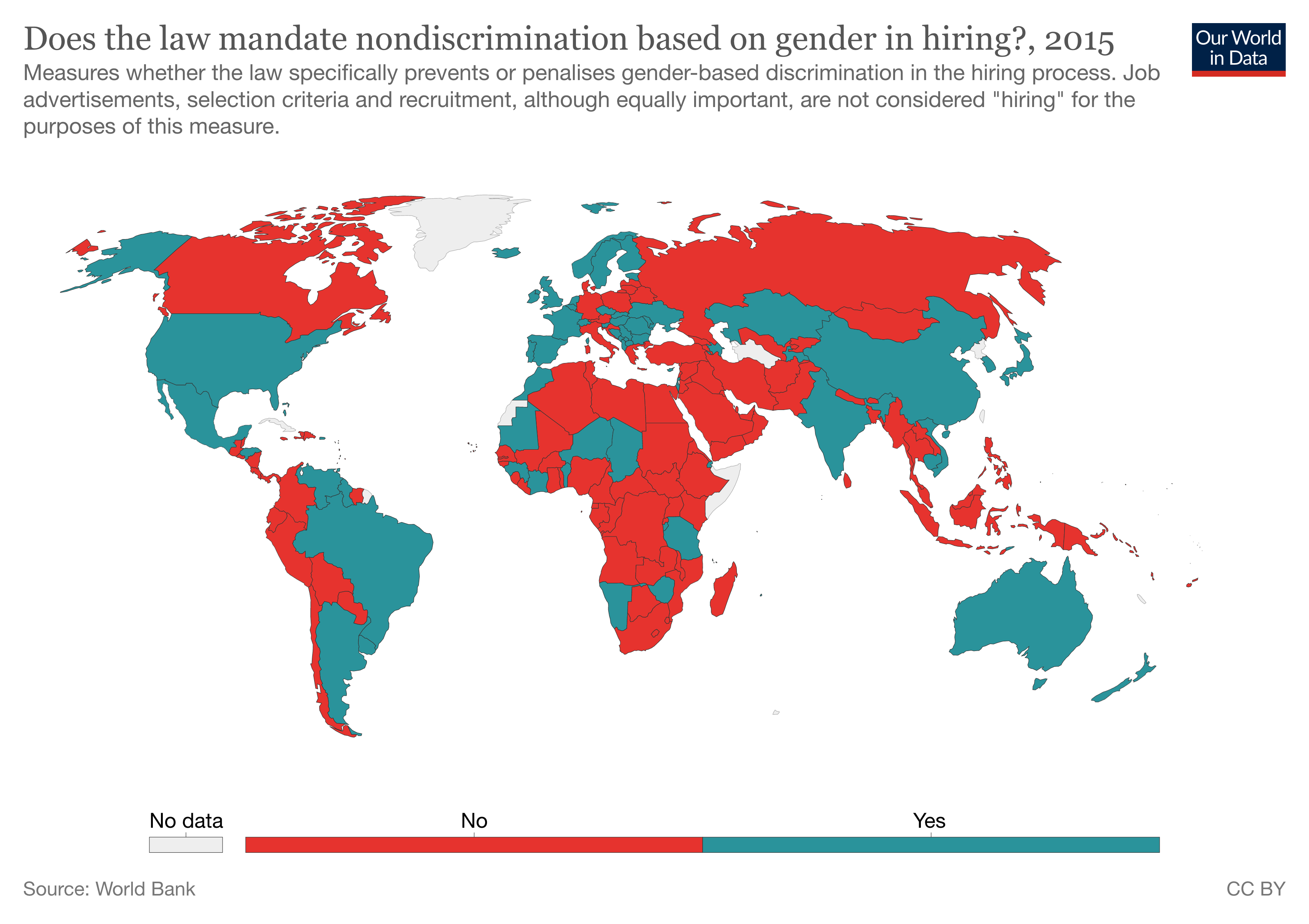 Law mandates nondiscrimination based on gender in hiring is whether the law specifically prevents or penalizes gender-based discrimination in the hiring process; the law may prohibit discrimination in employment on the basis of gender but be silent about whether job applicants are protected from discrimination. Hiring refers to the process of employing a person for wages and making a selection by presenting a candidate with a job offer. Job advertisements, selection criteria and recruitment, although equally important, are not considered “hiring” for purposes of this question.